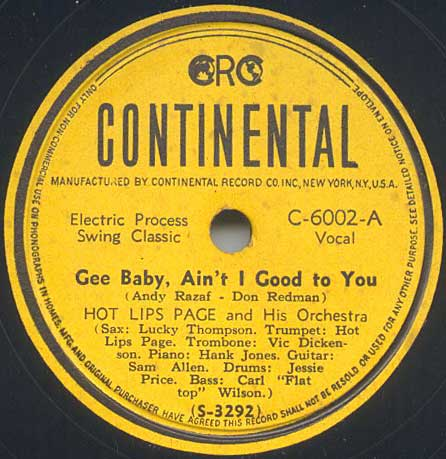 Hot Lips Page shellack Gee baby Ain't Good for You